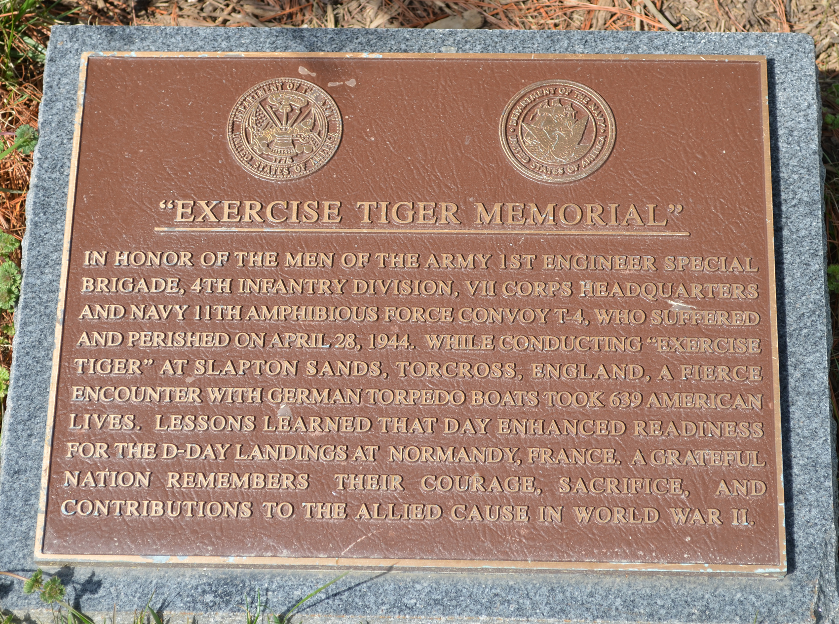 The "Exercise Tiger" memorial in Arlington National Cemetery in Arlington, Virginia, in the United States. Regulatory changes at the cemetery limited the size, placement, and number of memorials in the late 20th and early 21st centuries. Most new memorials are small plaques placed by military associations and foundations. Placement of the memorial includes a financial donation to help to maintain trees and grounds at the cemetery. As of March 2012, there were more than 140 such miscellaneous memorials in the cemetery. This memorial is in Section 83, placed before an Eastern White Pine.